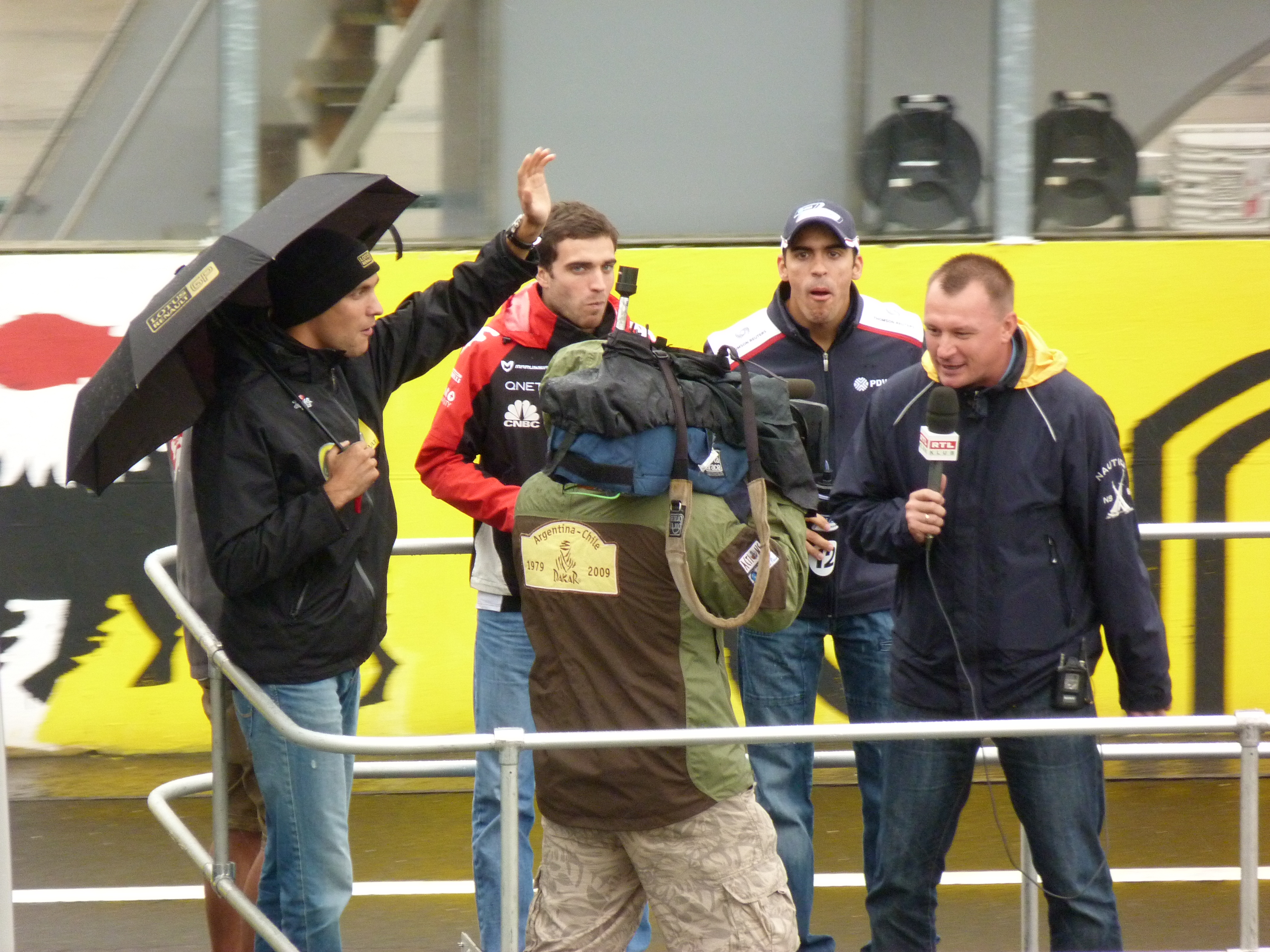 Live on the 31 st of July, 2011. Hungaroring, Mogyoród, Hungary. The 26 th Formula 1 Hungarian Grand Prix started at 2 pm. Before the start. Budapest has always been special place for Jenson Button: it was here that he took his first Grand Prix win five years ago - and it is here that he has taken victory in his 200th Grand Prix. Red Bull's Sebastian Vettel stretched his commanding lead in the championship with a second-place finish in wet conditions Sunday.